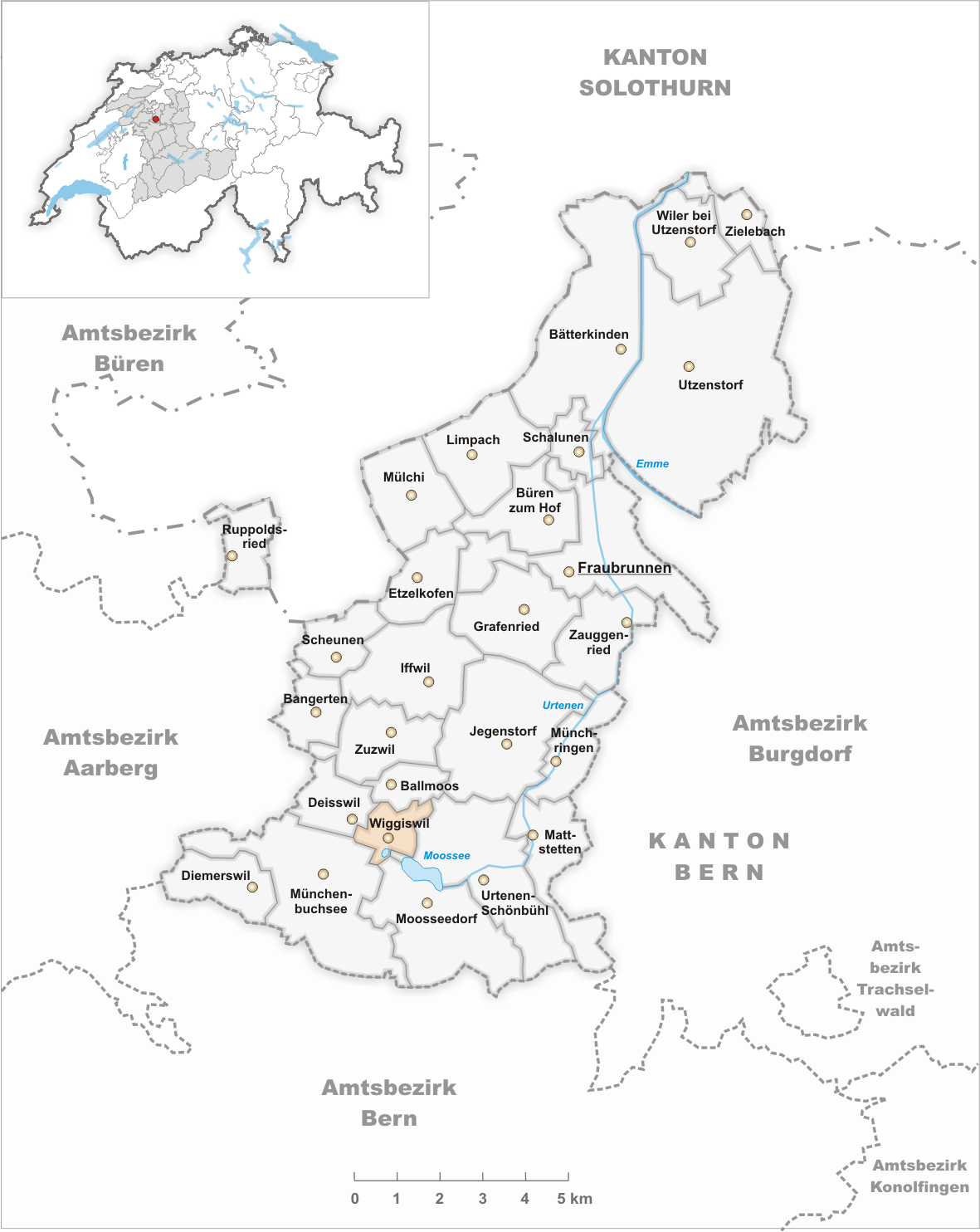 Municipality Wiggiswil